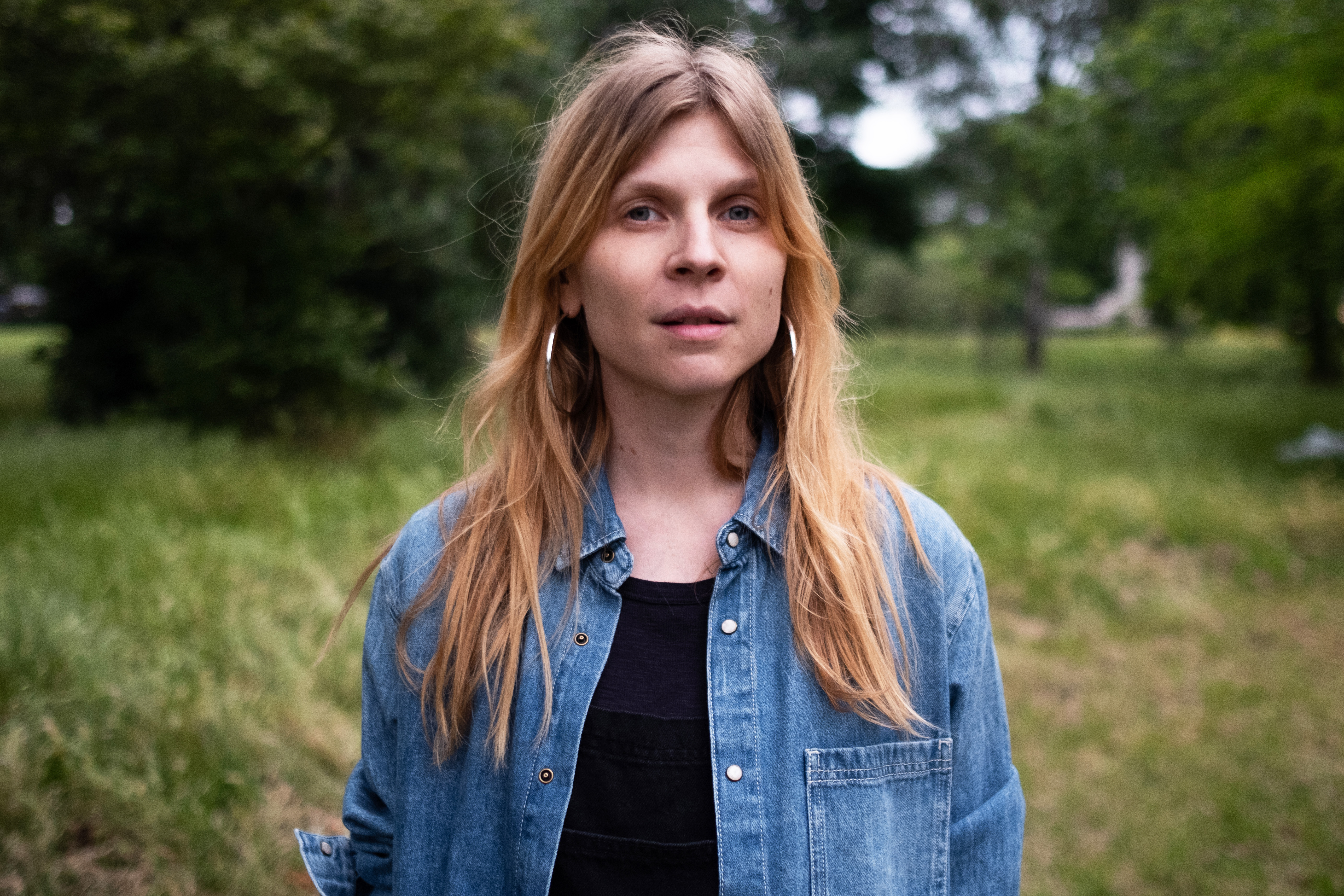 Clémence Poésy , june 2019, in London